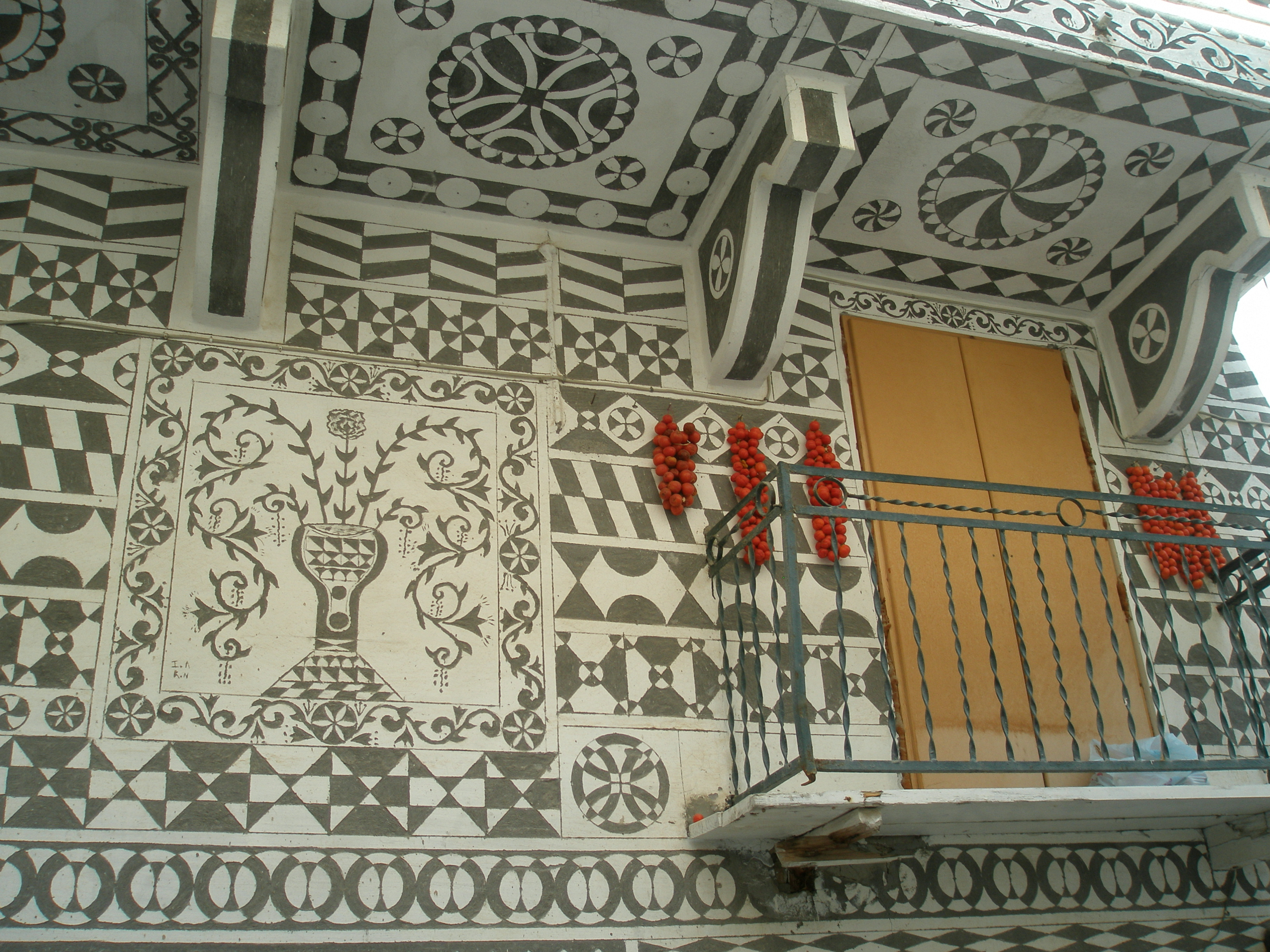 Traditional house at Pyrgi of Chios